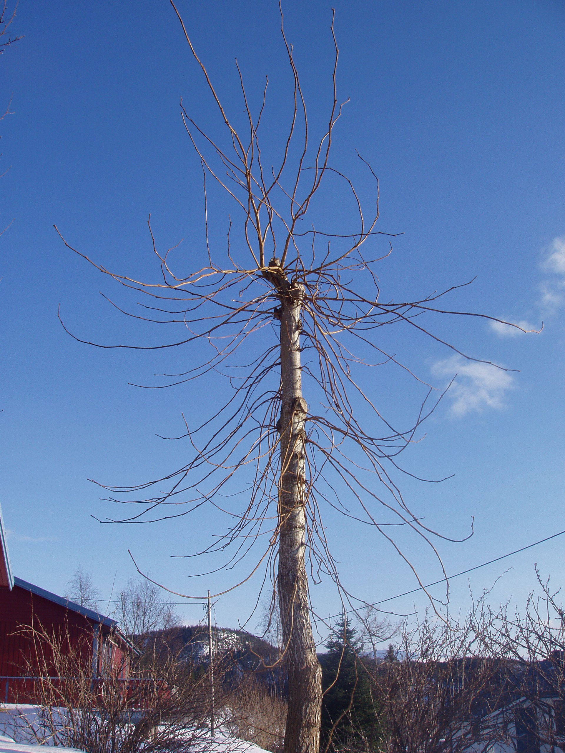 Ulmus glabra with a broken top